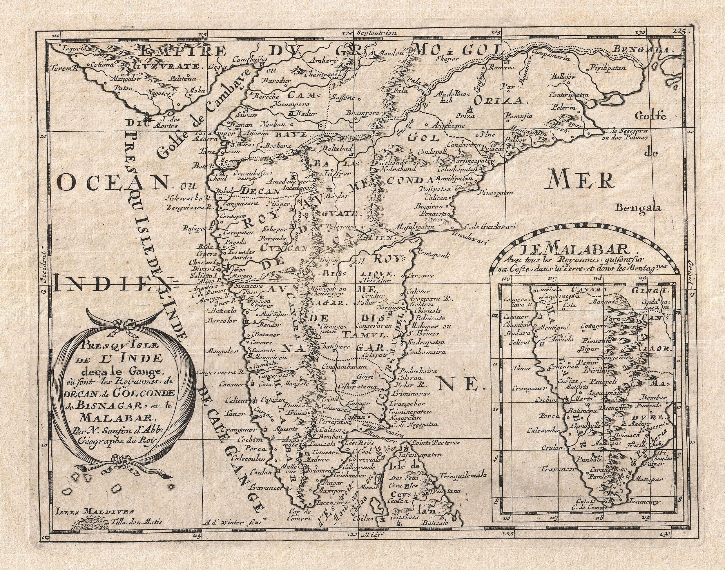 A small but attractive 1652 map of India by the French cartographer Nicholas Sanson. Covers the subcontinent From the Bay of Bengal and the Gulf of Cambay to Ceylon (Sri Lanka). Offers impressive detail given that the interior of India was largely unknown to the west until the British survey's of the late 18th century. The vast Mogul Empire sprawls across the northern part of the map. Further south the kingdoms of Deccan, Malabar, Bisnagar, and Golconda, among others, are noted. As an indicator of how just out of date European knowledge of this region was, most of these kingdoms had fallen to ruin over 100 years prior to the publication of this map. The Portuguese enclave of Goa on India's west coast is noted. In the lower right quadrant there is an inset of the Malabar Coast. The lower left hand quadrant features a curious and speculative depiction of the Maldives.